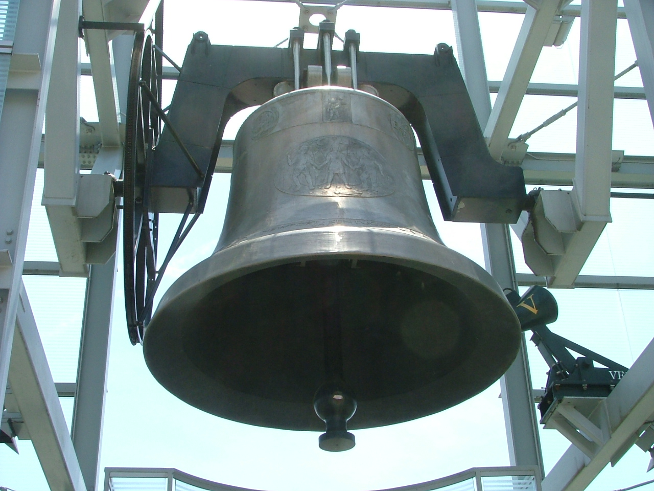 Author: Andy Helsby from . (Absoblogginlutely 19:45, 16 June 2007 (UTC)) No picture of this bell was previously available on wikipedia. Taken 16th July 2006.